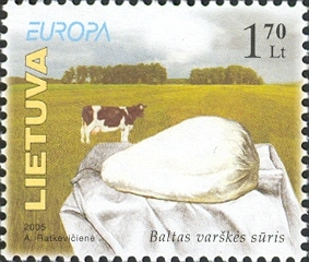 Europa 2005.Gastronomy. Date of issue: 9th April 2005 Designer: A. Ratkevichiene Paper: chalky Printing process: offset Perforation: comb 12 Size of a stamp: 35 x 30 mm Size of a Miniature Sheet: 100 x 176 mm Miniature Sheet composition: 10 (2 x 5) stamps Printing run: 300.000 Michel catalogue numbers: 871-872 1,70 L. multicoloured. White cheese